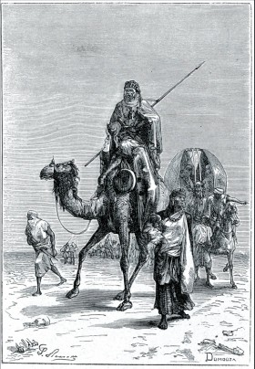 Benjamin of Tudela in the Sahara, in the XIIth century (Engraving by Dumouza, XIXst century